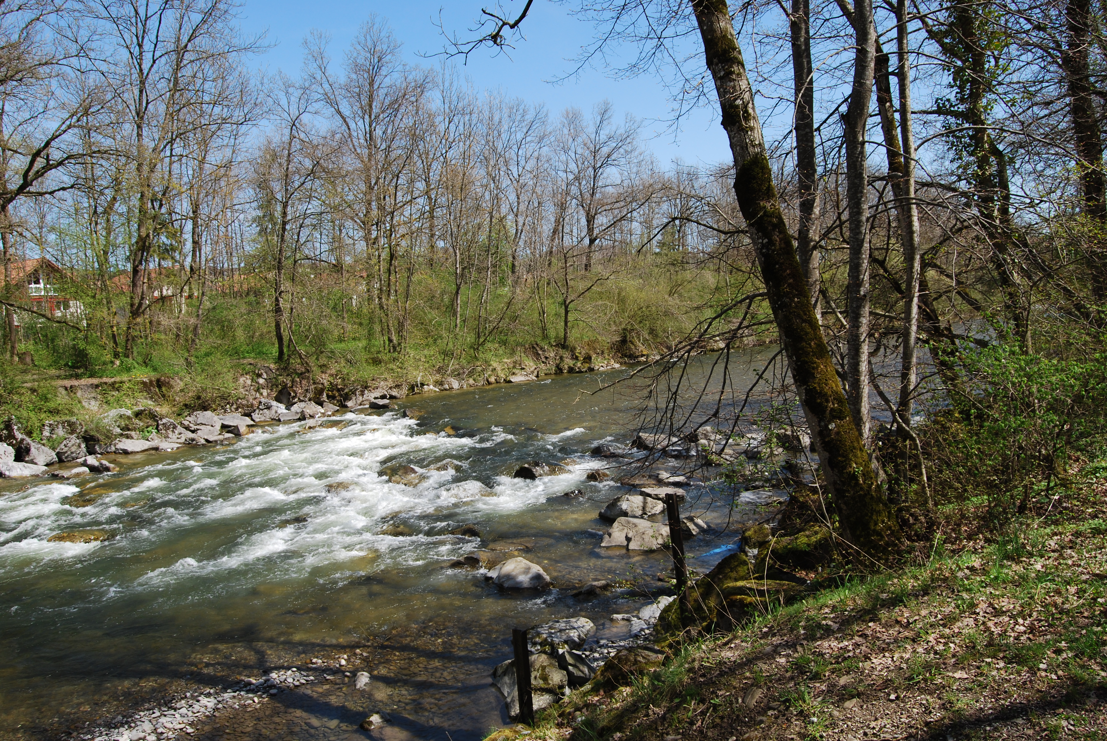 The river Sense near the village of Sensebrücke, municipality Wünnewil-Flamatt, canton of Fribourg, Switzerland